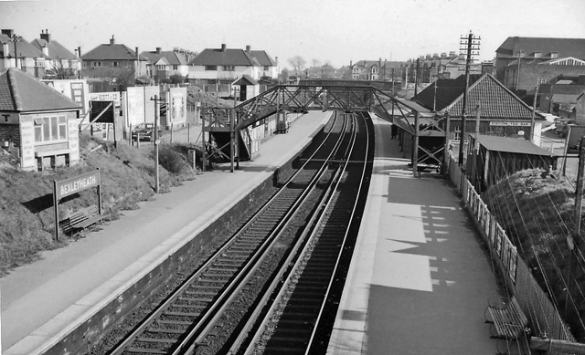 Bexleyheath Station. View eastward, towards Dartford; London - Lewisham - Blackheath - Dartford line.